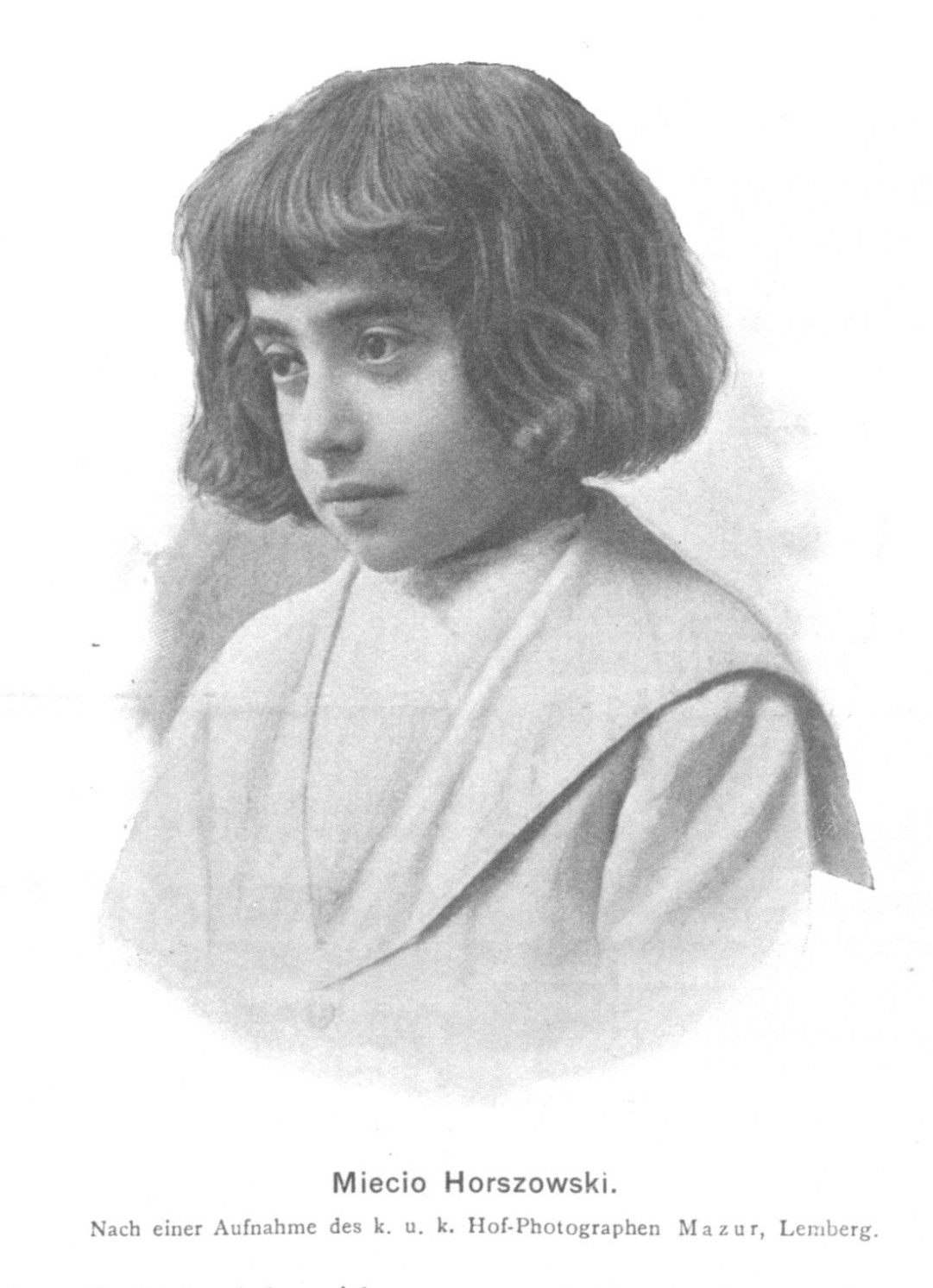 Portrait of young Mieczysław Horszowski (1892-1993), Polish and later American pianist.